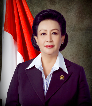 Her Majesty Queen Hemas of Yogyakarta